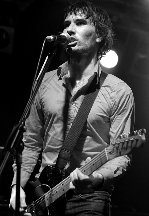 Amplifier Stage @ The Amplifier Bars 10 Year Anniversary NYE Party